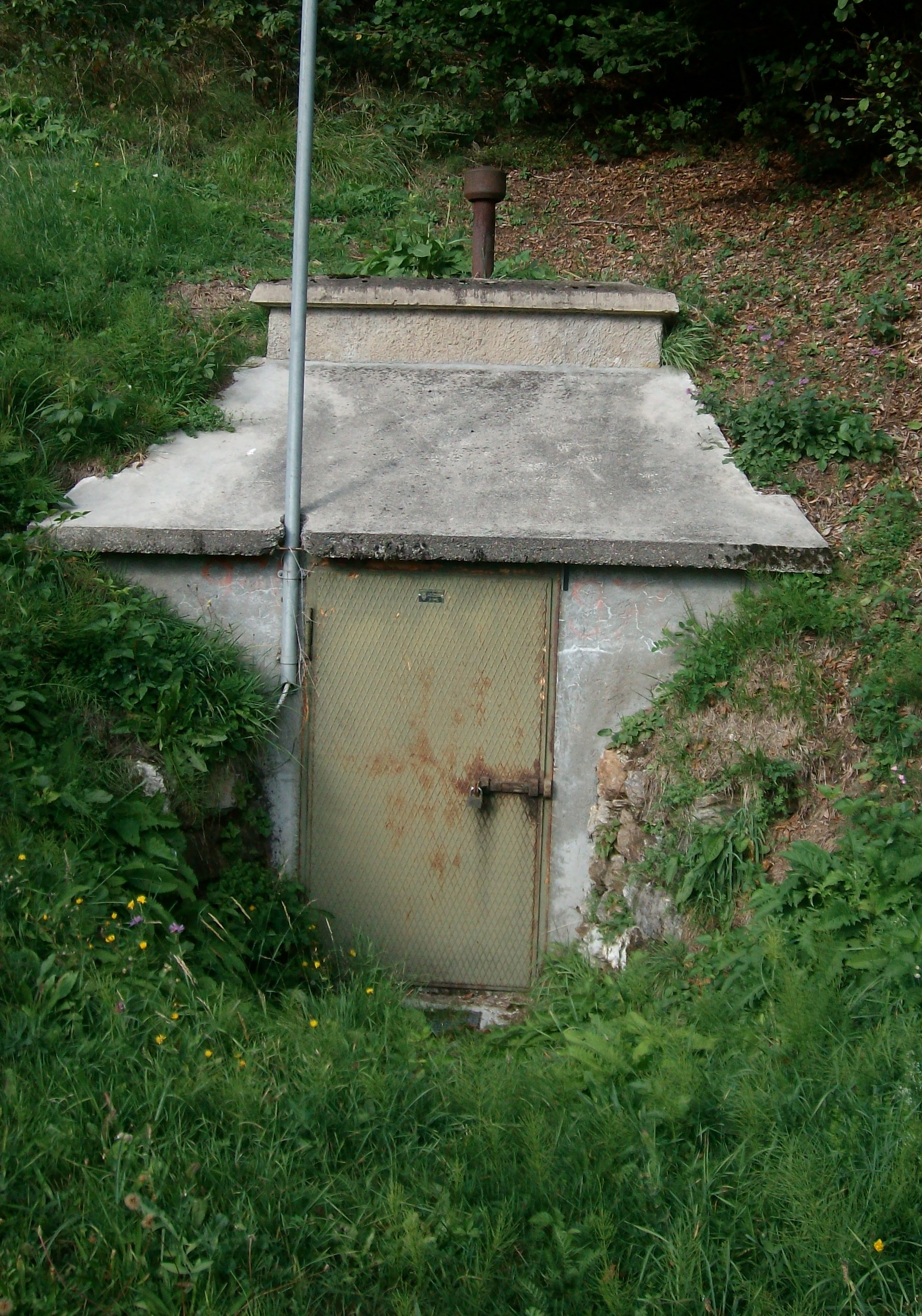 A mine in Solàn (Imèr)